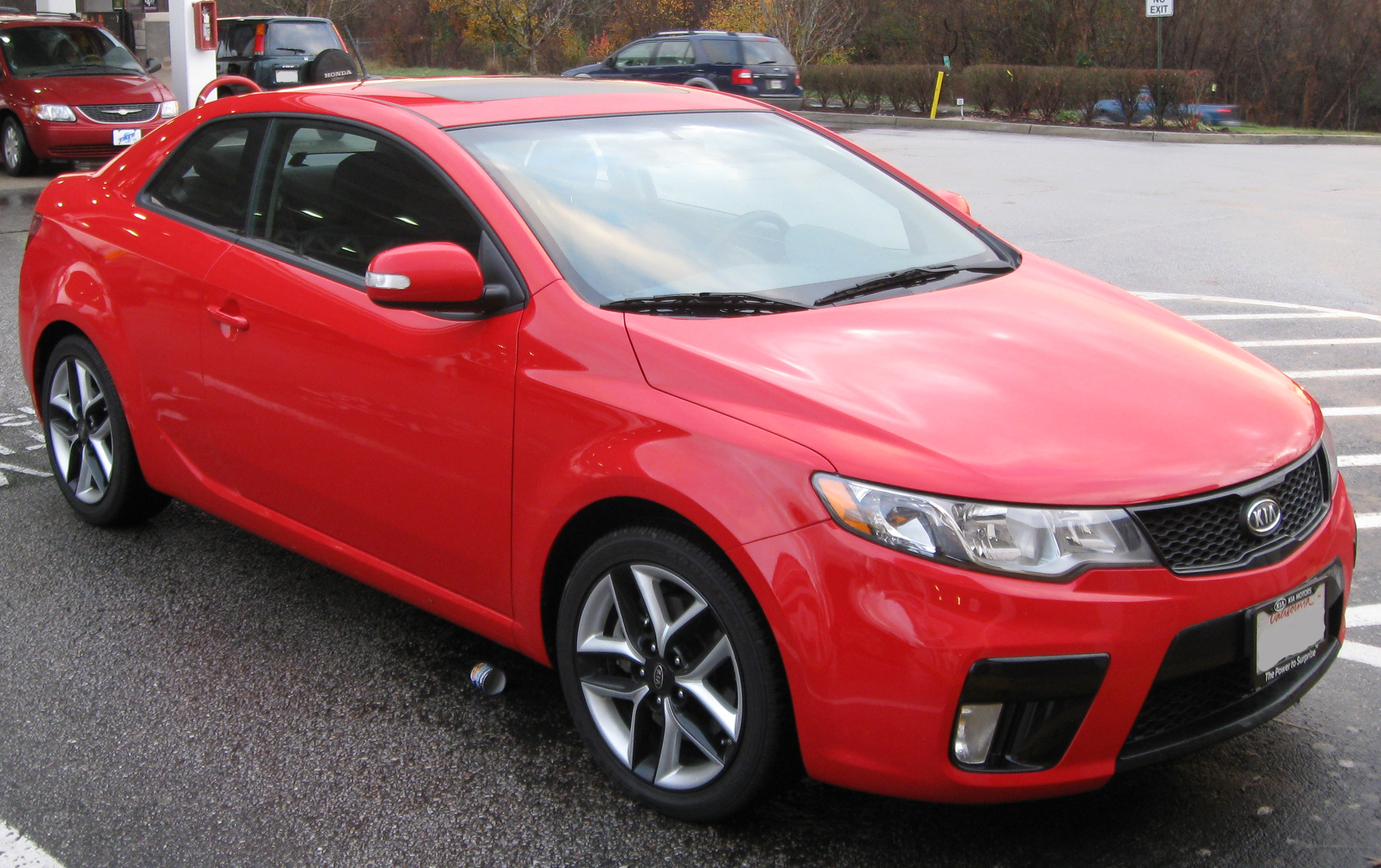 2010 Kia Forte Koup photographed in Upper Marlboro, Maryland, USA.